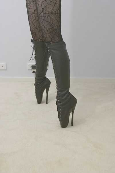 Courtesy of Aussieropeworks, who have granted GFDL rights. Taxwoman 22:11, 10 November 2005 (UTC)